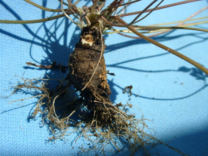 Semiaquilegia adoxoides' root.Location:Yokohama,Kanagawa,Japan